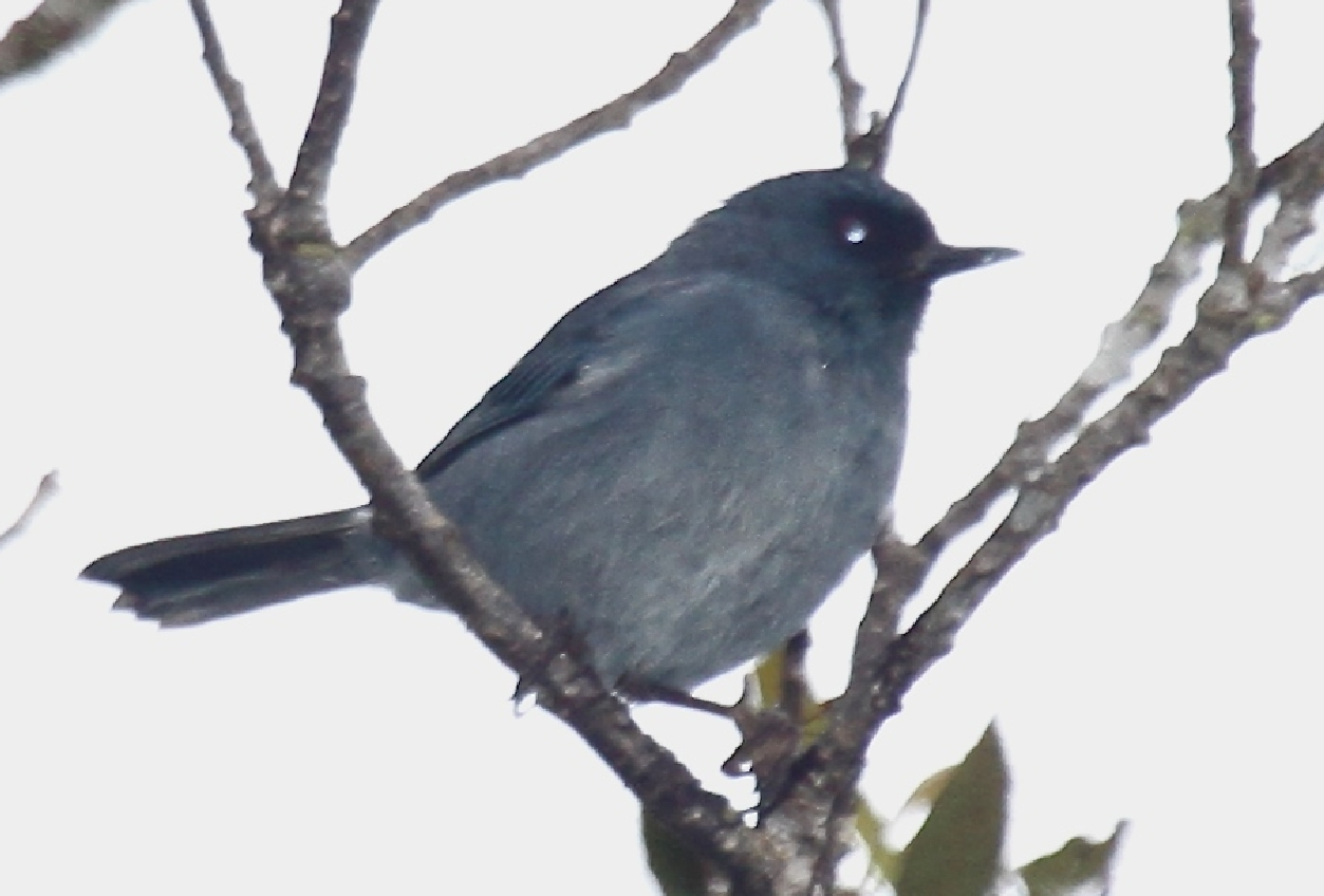 Acanama Reserve - Ecuador